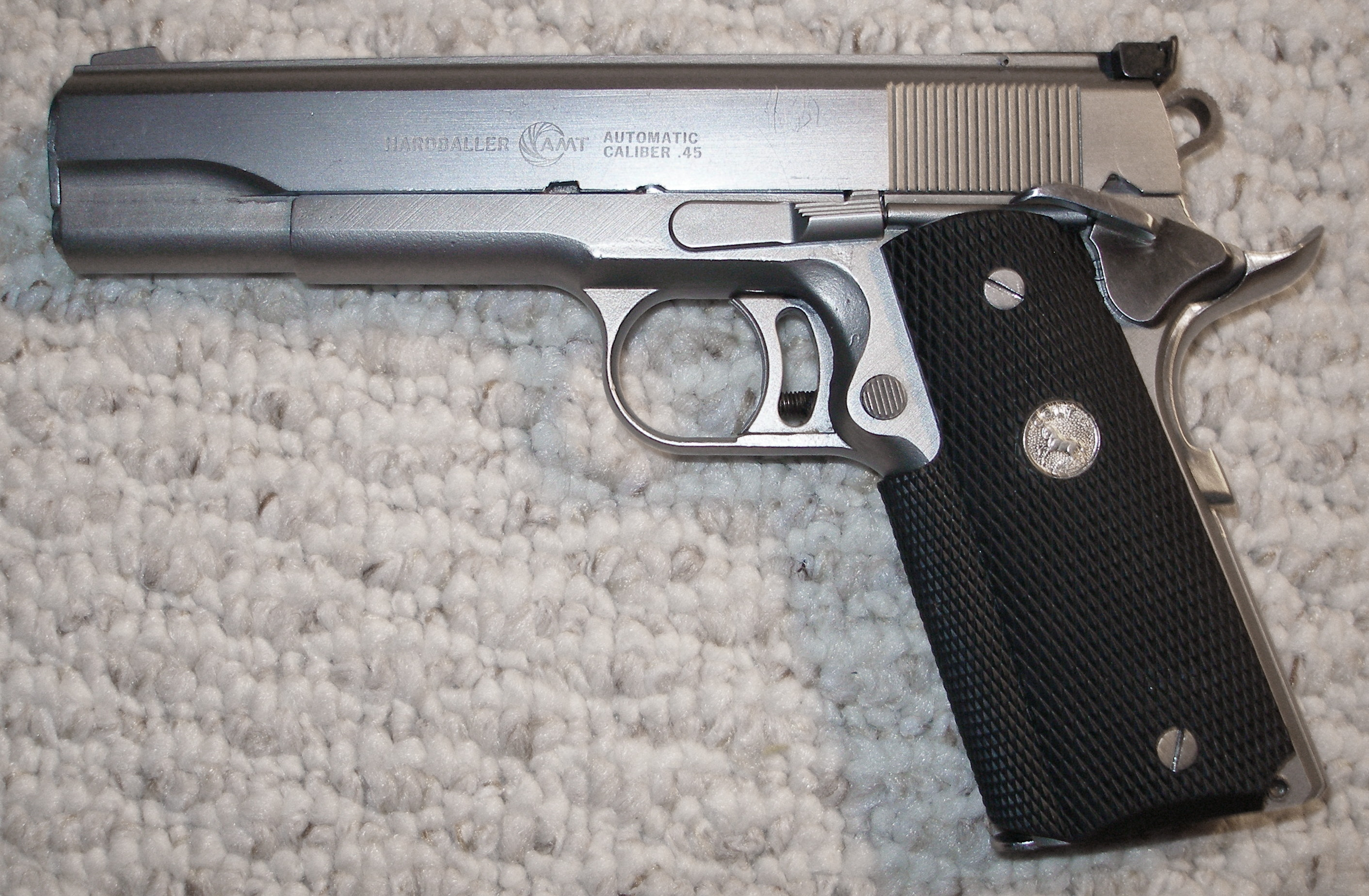 AMT HARDBALLER .45ACP